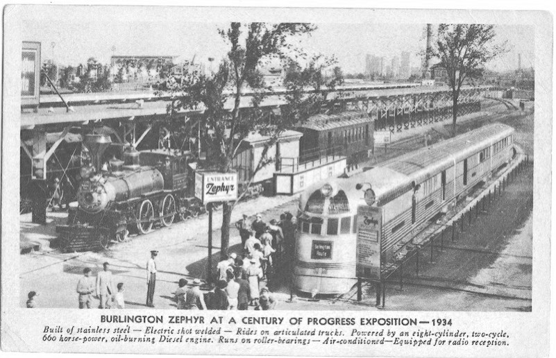 Postcard with photo of the Burlington Pioneer Zephyr at Chicago's Century of Progress exposition, 1934.